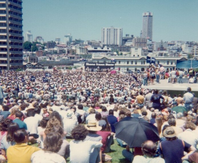 The Sydney Domain on 24 November 1975, at the ALP policy launch for the election precipitated by the 1975 Australian Constitutional Crisis.